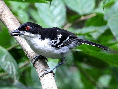 Great Antshrike (male) at Bonito - MS - Brazil